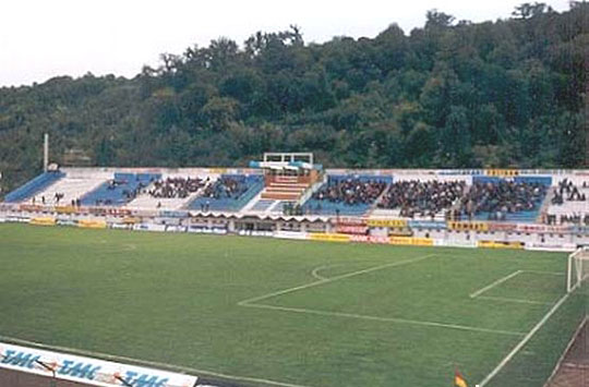 Stadium of the Gloria Bistriţa, Bistriţa, Romania